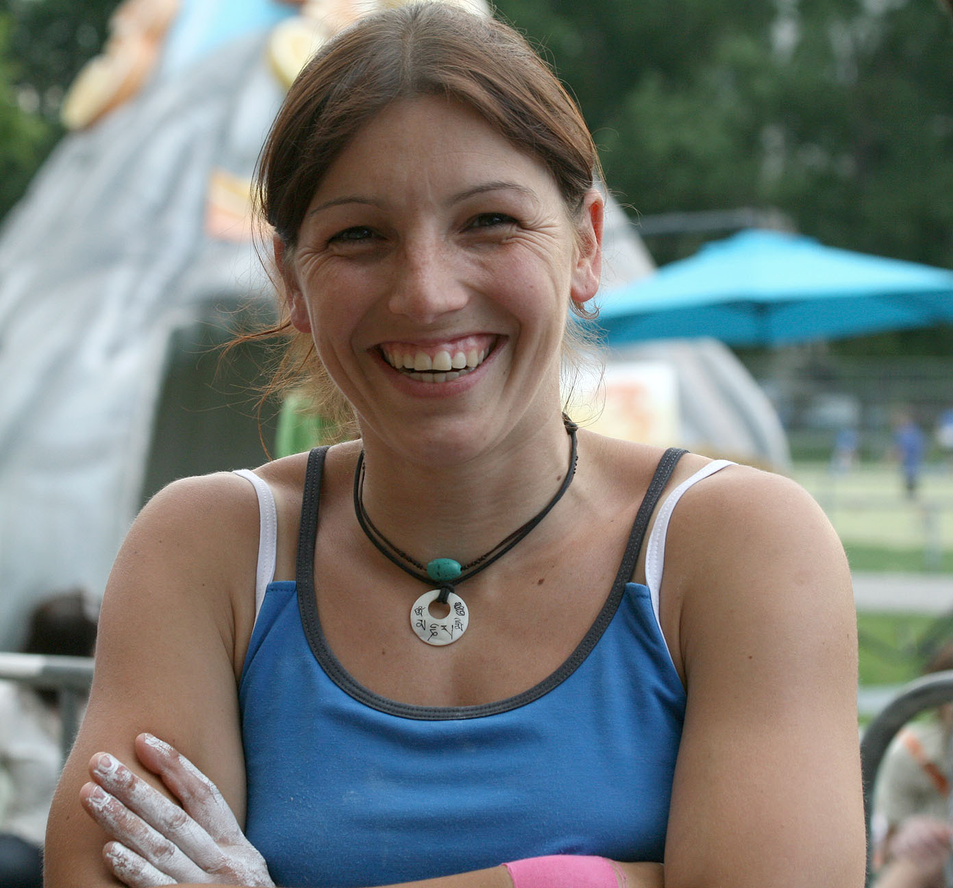 Barbara Bacher during qualifications at the IFSC Boulder Worldcup Vienna 2010.